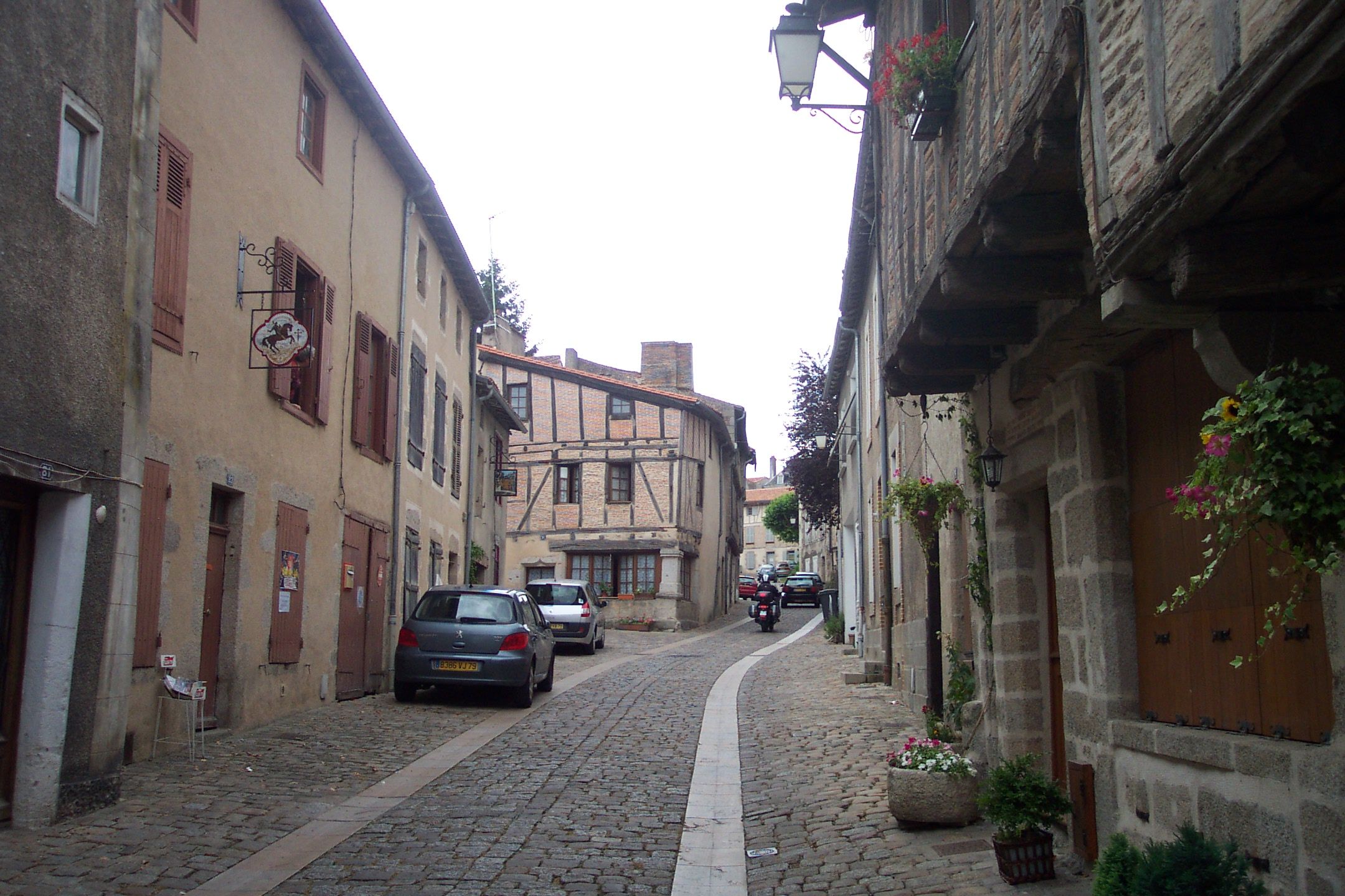 The Rue de la Vau Saint-Jacques in Parthenay from street level, looking uphill. For more information, see the Wikipedia article Parthenay.